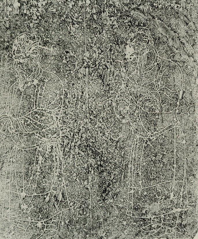 Yan_Liben._Section_of_the_Twenty_Four_Meritorious_Officials_in_the_Lingiang_Palace._Ink_rubbing_of_a_line_engraving._1090. Central Academy of Fine Arts, Beijing